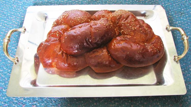 This my own own work, Gila Brand. Challah with sesame seeds on a tray. Photo taken on June 14, 2007.